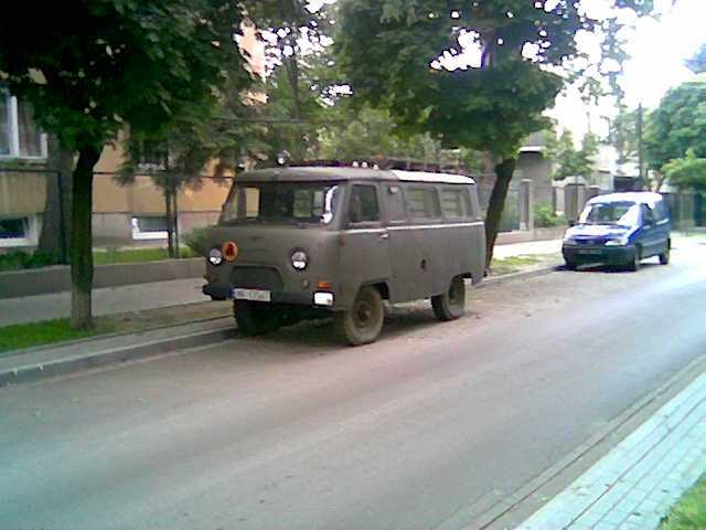 UAZ 452 van photgraphed in Warsaw by mobile phone